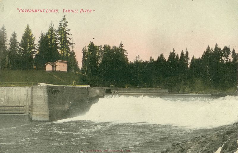 Yamhlli Locks and dam, near Lafayette, Oregon ca 1908 or before